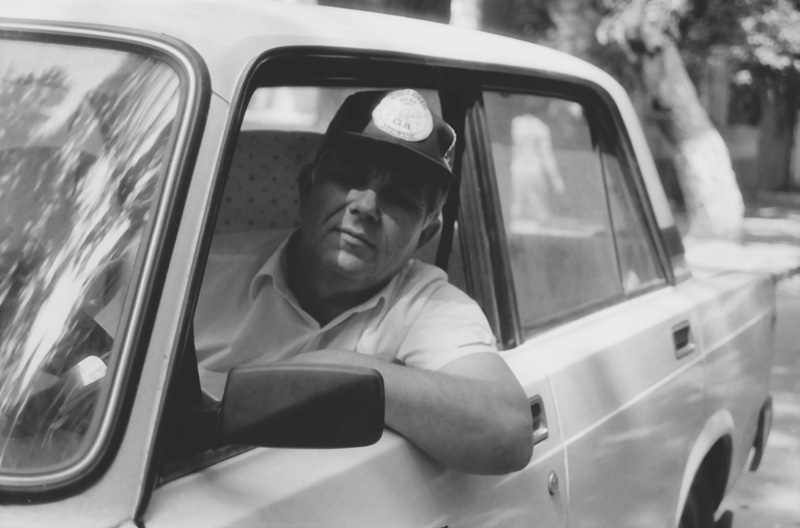 Anatol Codru behind the wheel of his car.